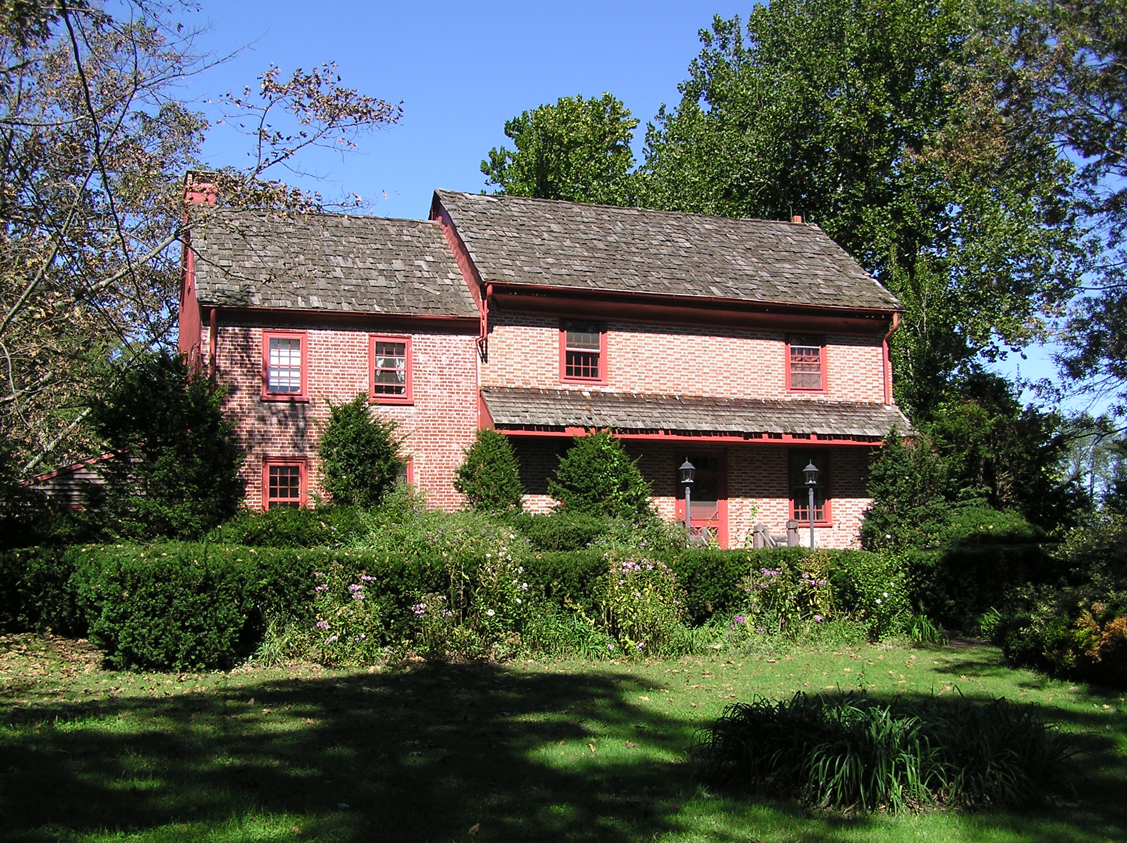 Front view of the house on the Bishop-Irick Farmstead, 17 Pemberton Road, in the Vincentown section of Southampton Township, NJ.